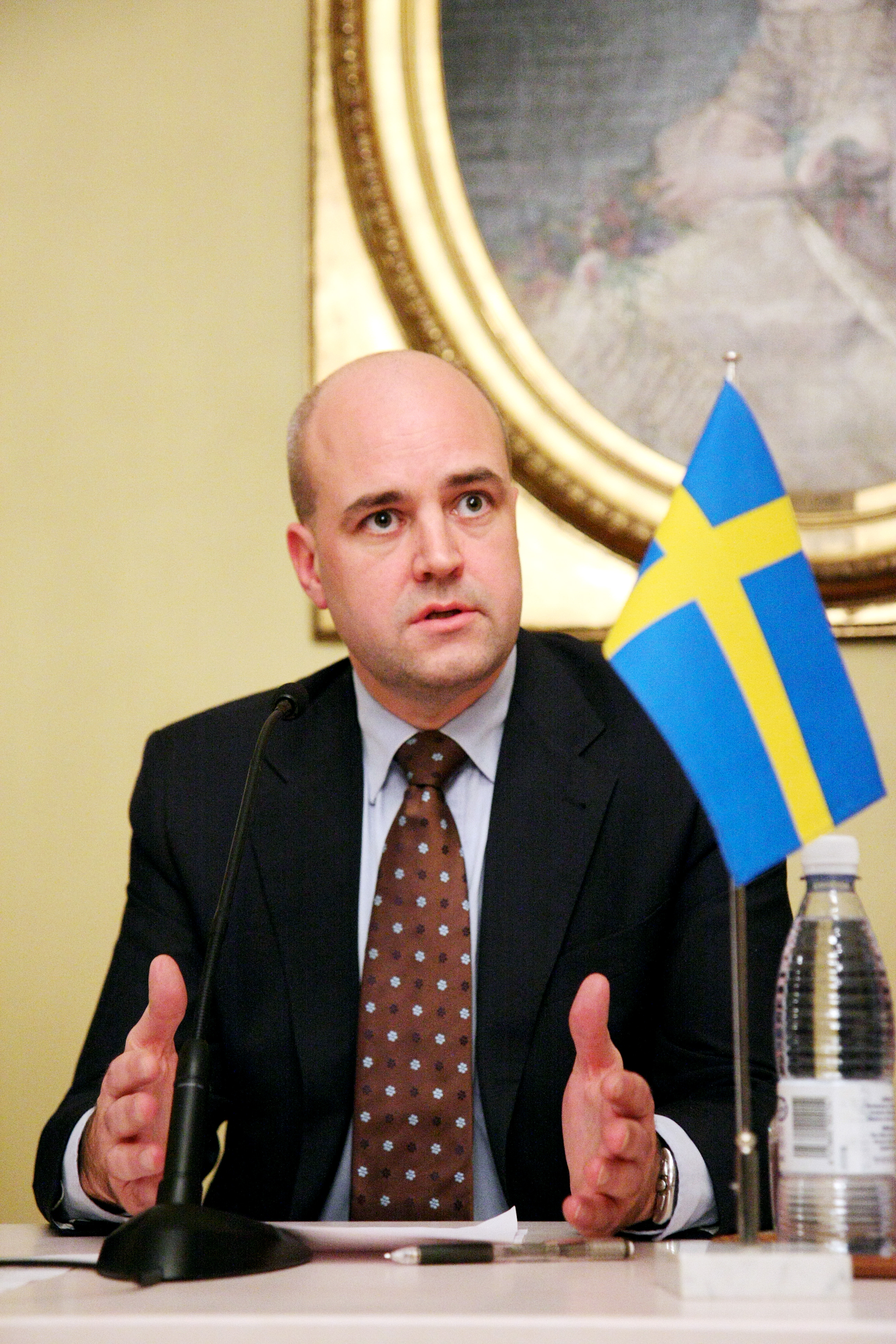 Sveriges statsminister Fredrik Reinfeldt vid Nordiska rådets session i Helsingfors 2008-10-27. Keywords: Fredrik Reinfeldt